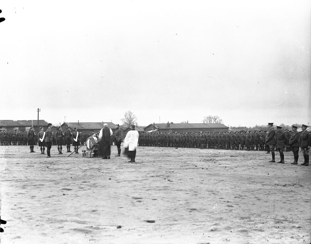 Presentation of the colours to the 43rd Battalion, Canadian Expeditionary Force by the General Currie